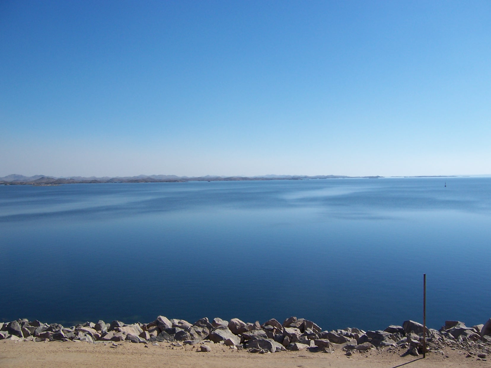 Pictures from Aswan, Egypt